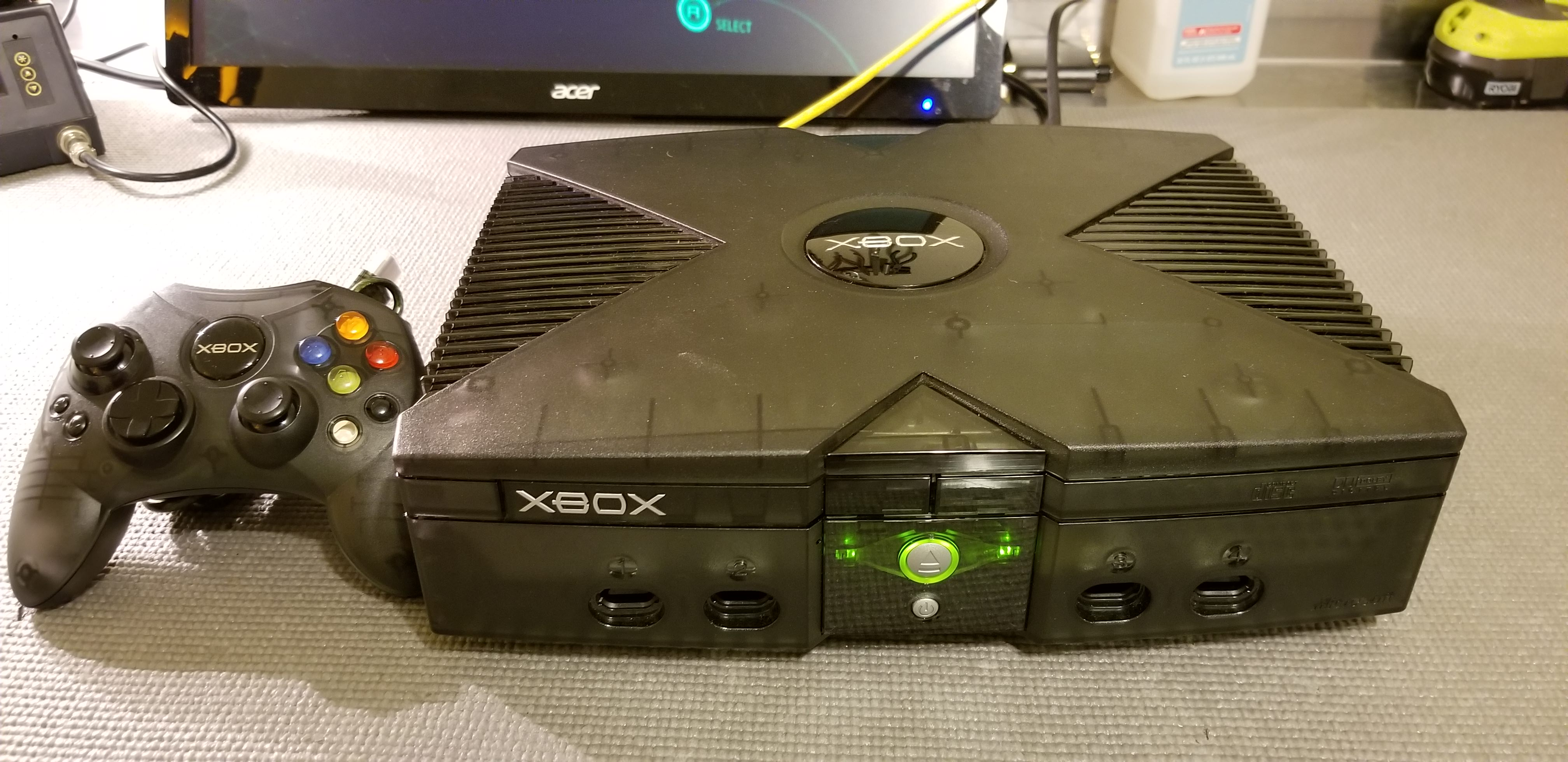 Photo showing a special edition Xbox console originally released in Japan to commemorate the console's launch in Japan.